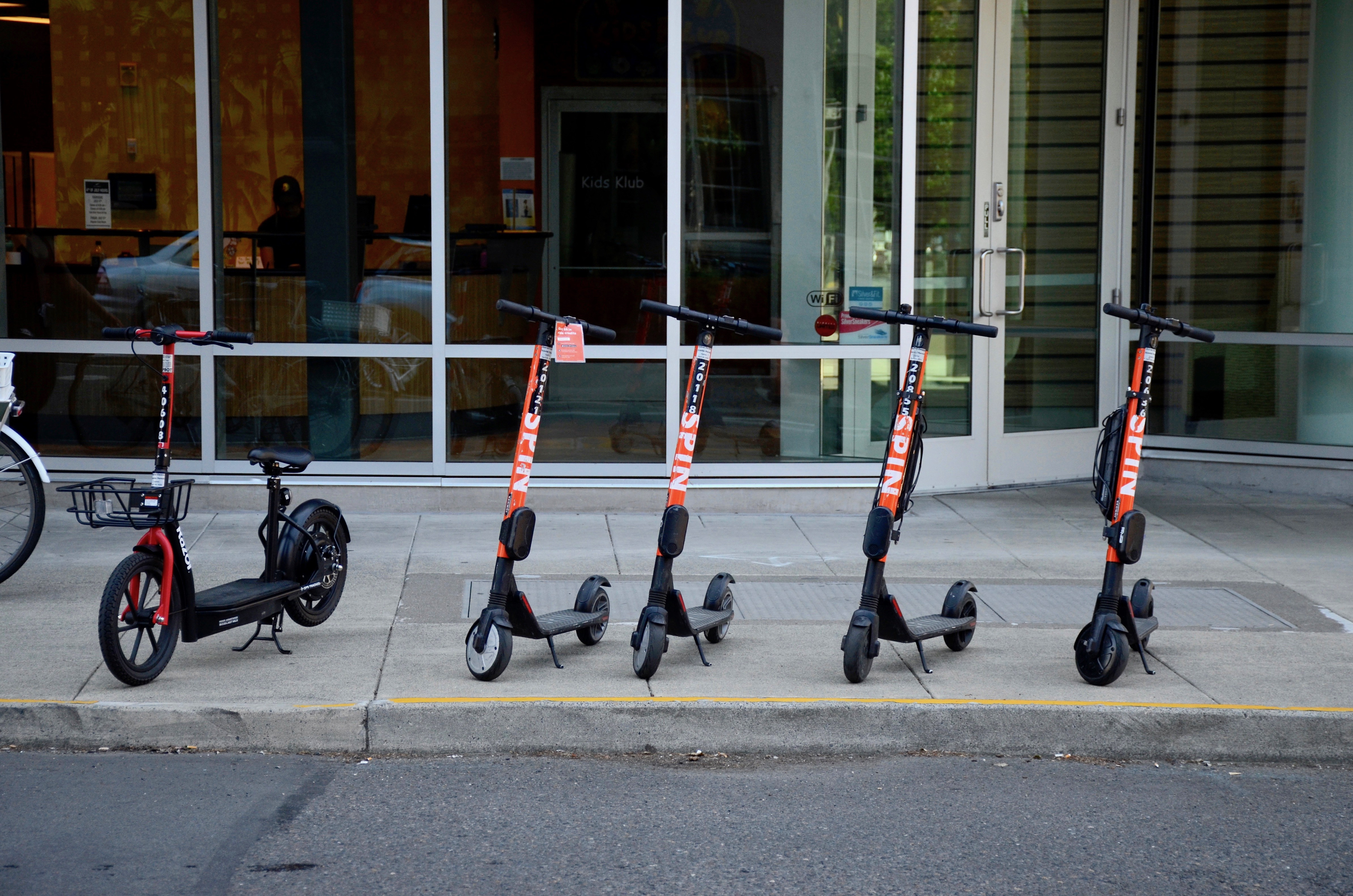 Four rental/shared electric kick scooters parked on a sidewalk in Portland, Oregon: One Razor brand and four Spin brand.